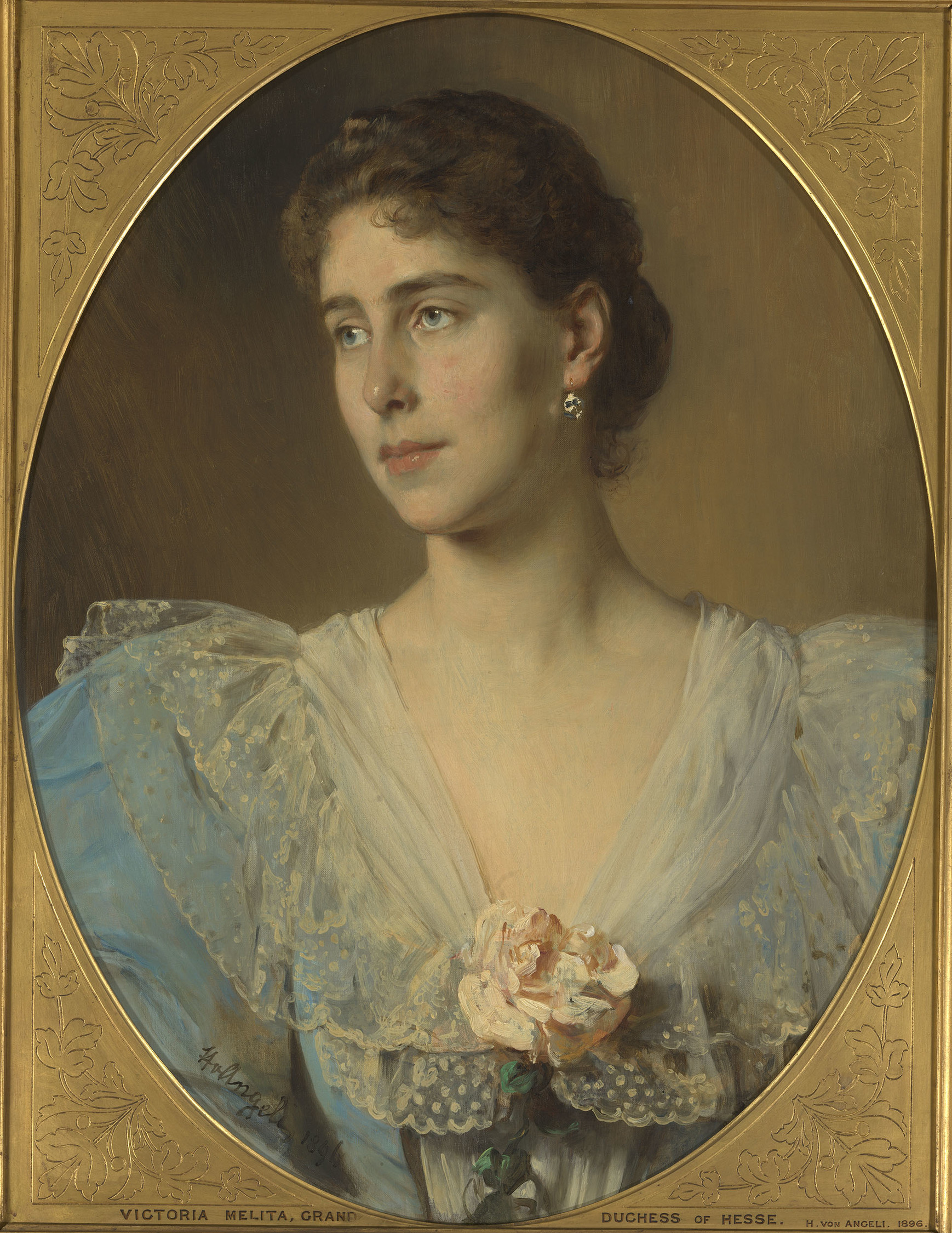 Princess Victoria Melita of Edinburgh, Grand Duchess of Hesse, is shown looking to the left in a pale blue dress with lace over her shoulders and a rose at her breast.